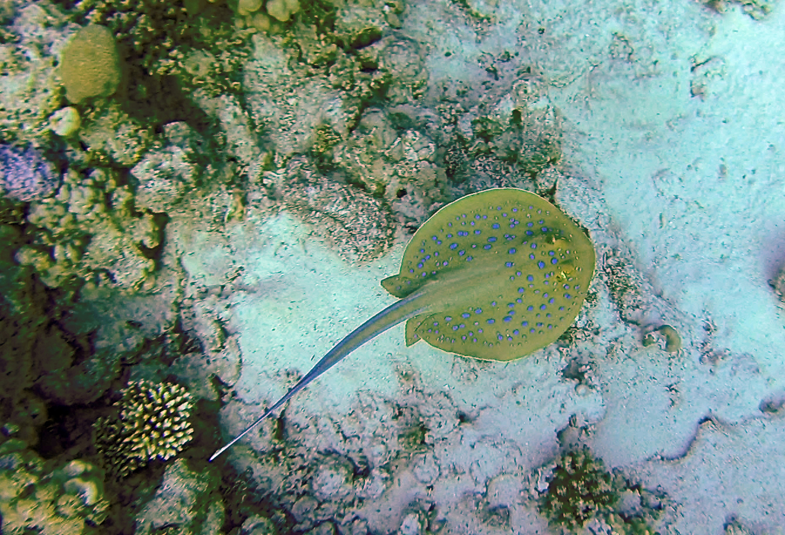 Taeniura lymma St. John Reef, Red Sea